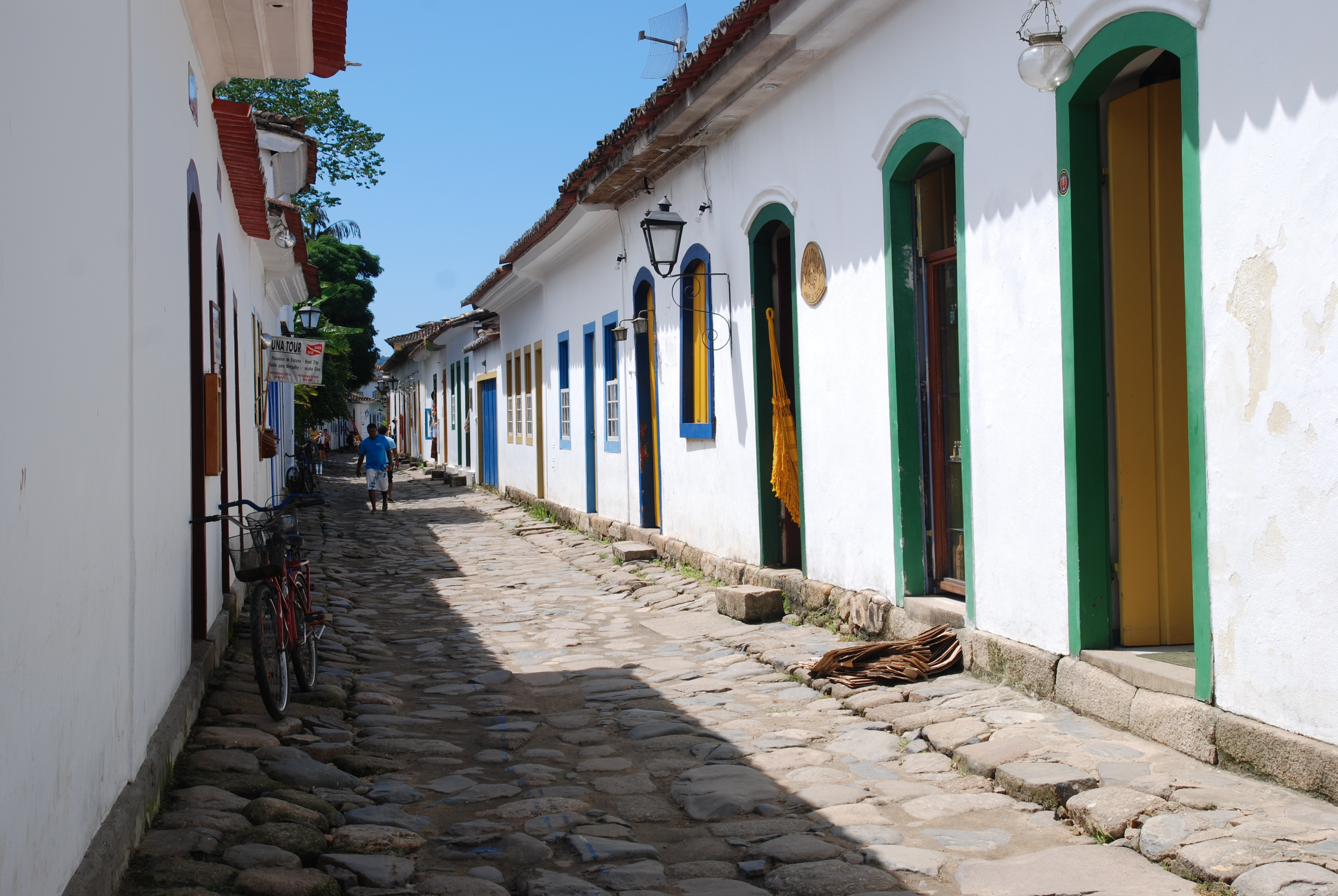 Narrow street in the touristy colonial city of Paraty, Rio de Janeiro state, Brazil